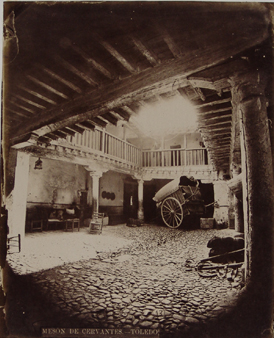 Mesón de Cervantes - Toledo.